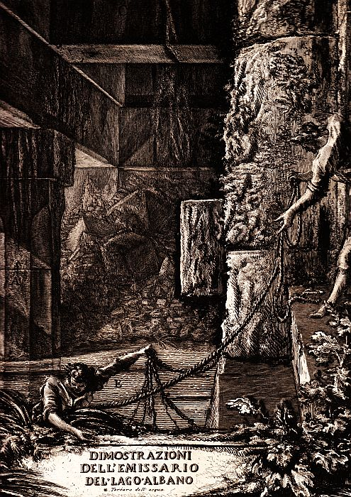 'Dimostrazion dell' emissario del Lago Albano'. Hydraulic works of the Roman Empire at the Lake Albano. Fragment of an etching by Piranesi.